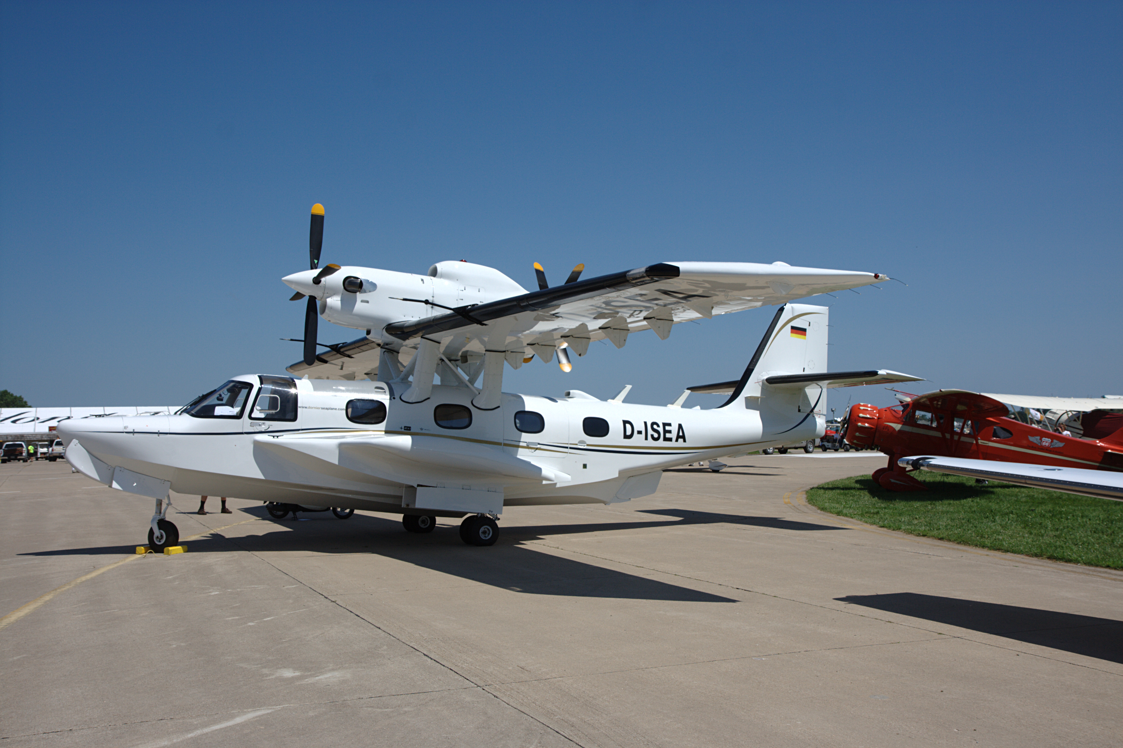 Seaplane